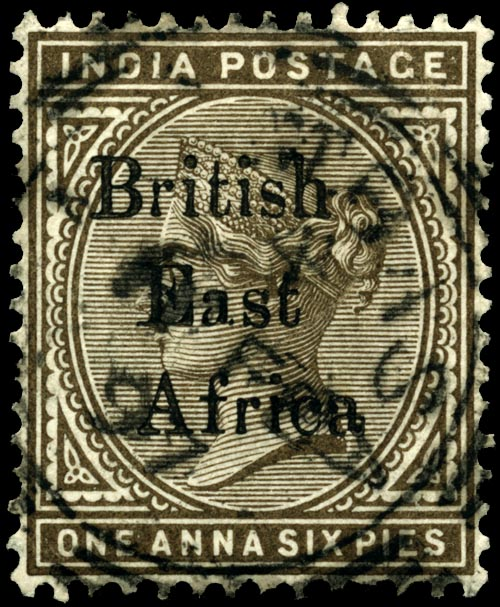 British East Africa 1a6p overprint stamp of 1895